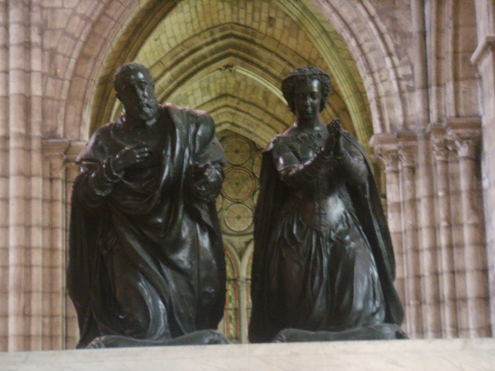 Praying effigies on the tomb of Henry II and Catherine de' Medici